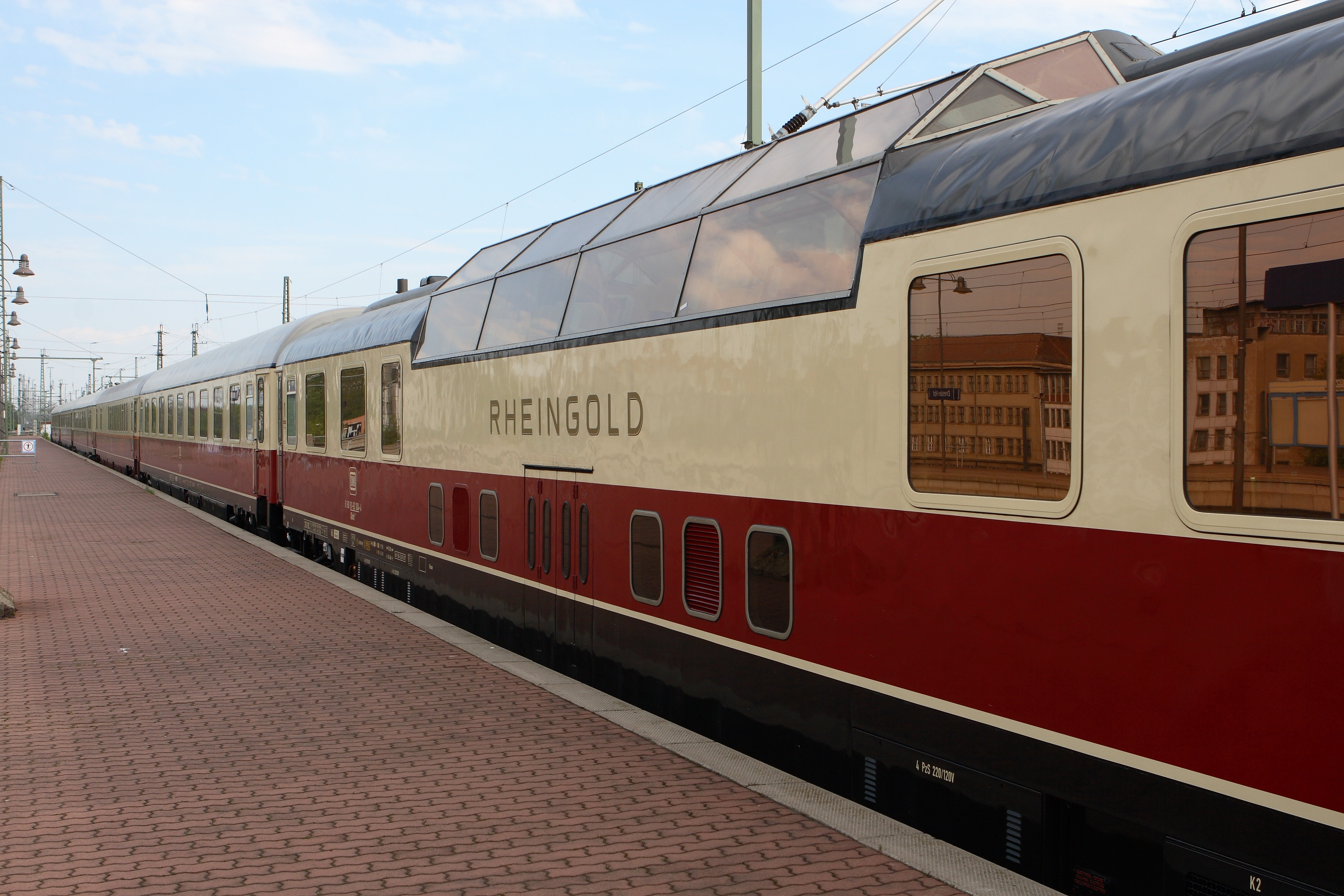 Preserved ex-TEE Rheingold train on display at Dresden Main station in 2007